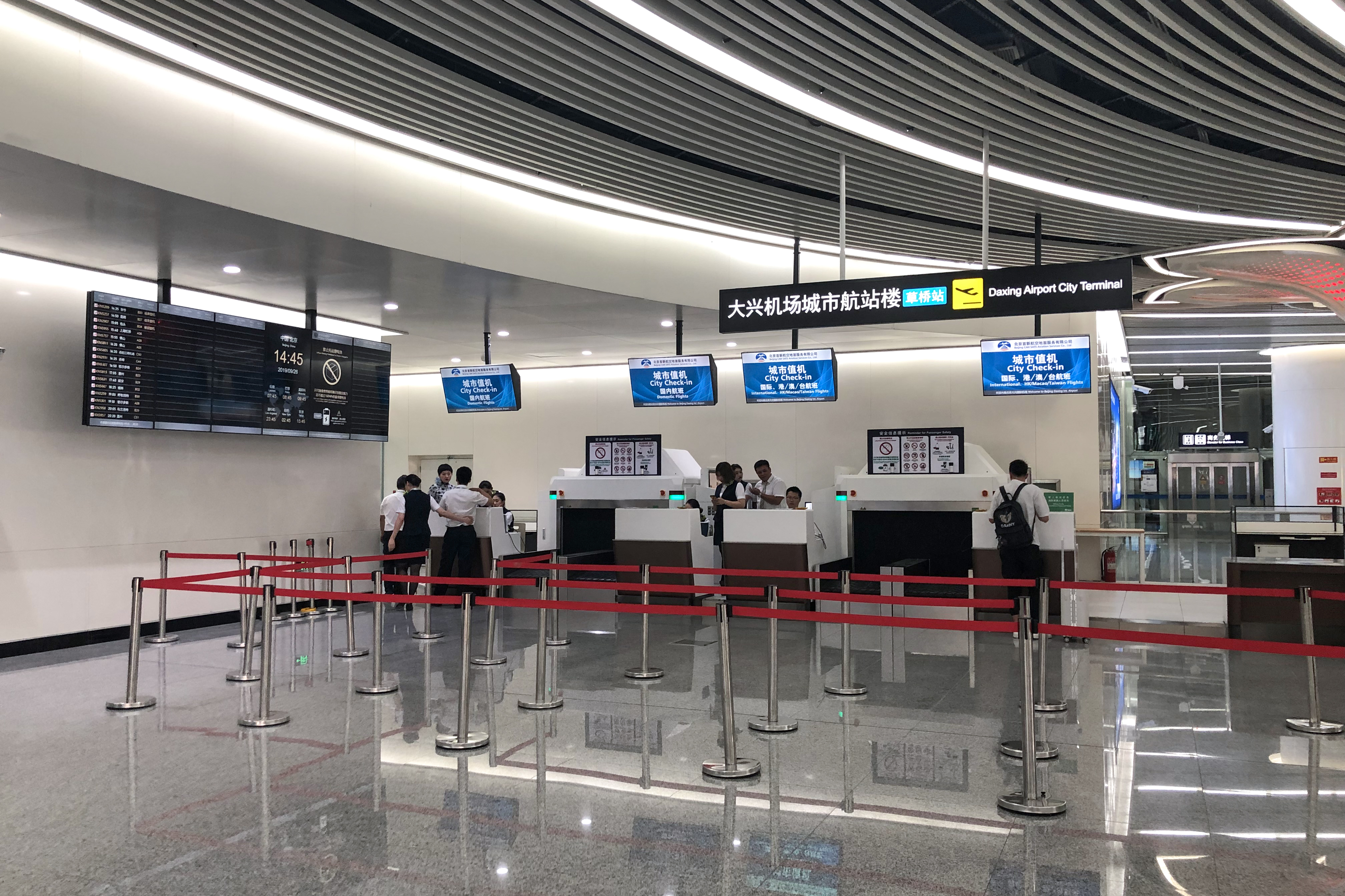 4 counters on the southwest corner.